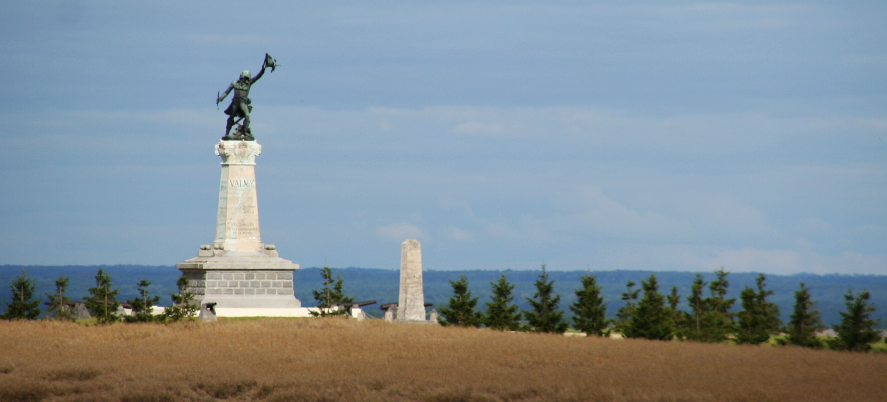 Kellermann Monument, by Théophile Barrau